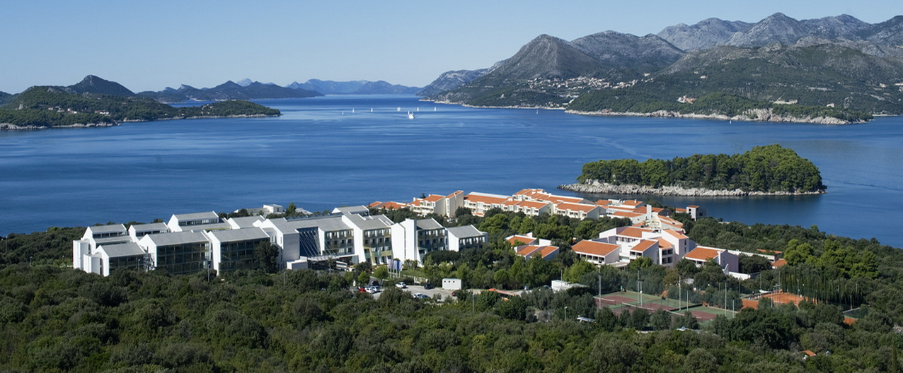 Babin Kuk Resort, Dubrovnik CRO, Edward Durell Stone